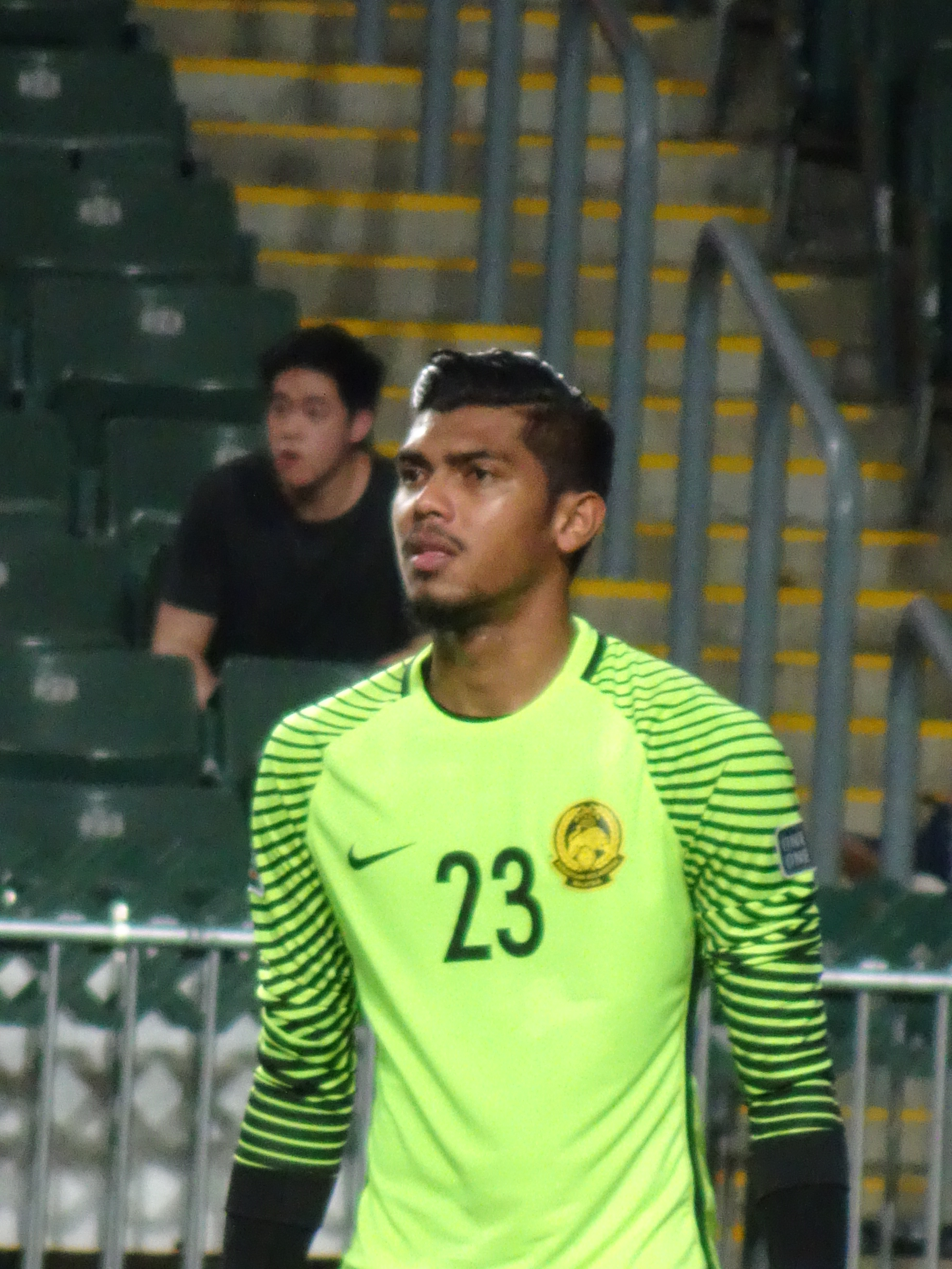 Hafizul Hakim (10 Oct 2017, Asian Cup Qualifier, Hong Kong vs Malaysia, Hong Kong Stadium)